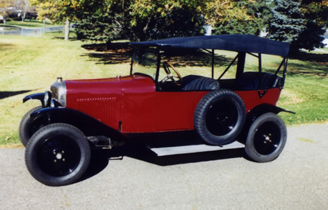 1921 Citroen type A